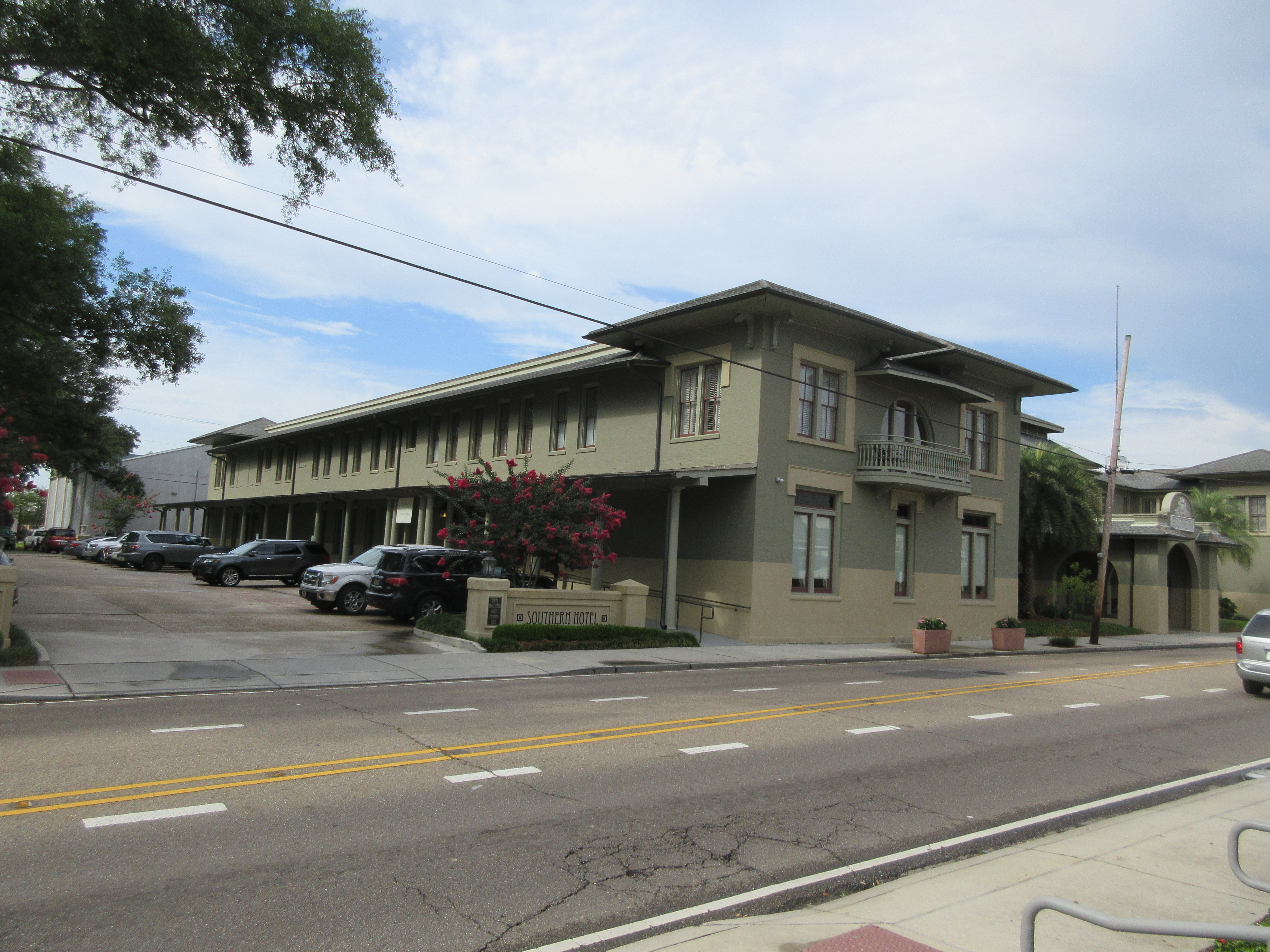 Southern Hotel Covington, St. Tammany Parish, Louisiana. Photo by Infrogmation of New Orleans, 17 June 2017. Free reuse with author attribution in accordance with any of the licenses listed by the author/photographer. Reuse without photo attribution is a violation of copyright.